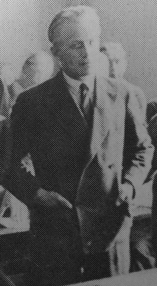 Axel Nordström, politician of the Communist Party of Sweden, being tried for insurrection following the Ådalen shootings.